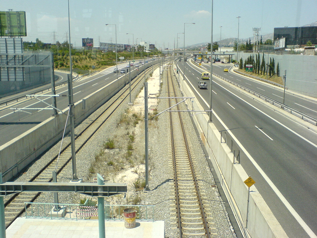 View of Pallini metro and suburban railway station, in Attica, Greece